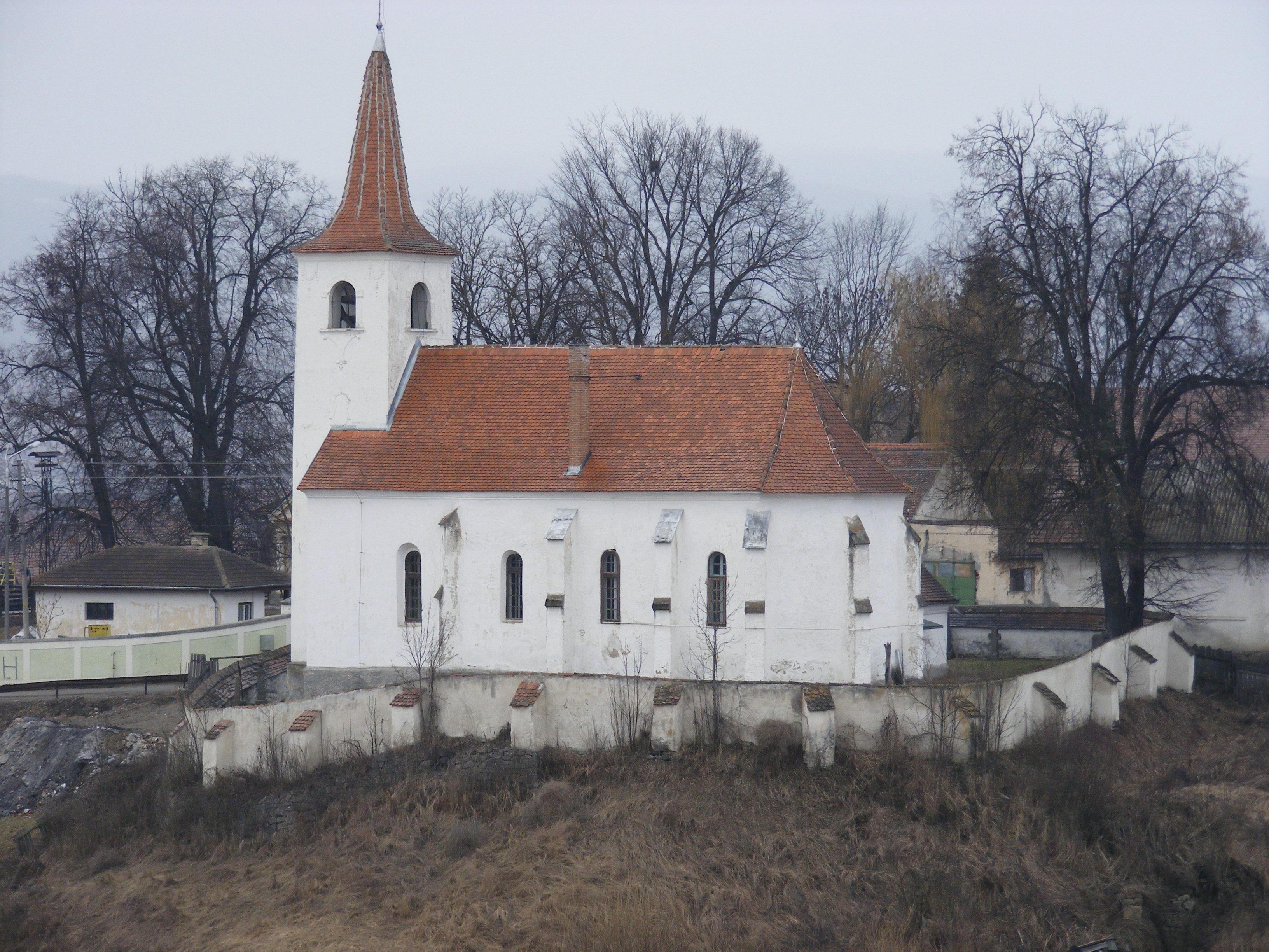 The romano-catholic church in Csíkzsögöd